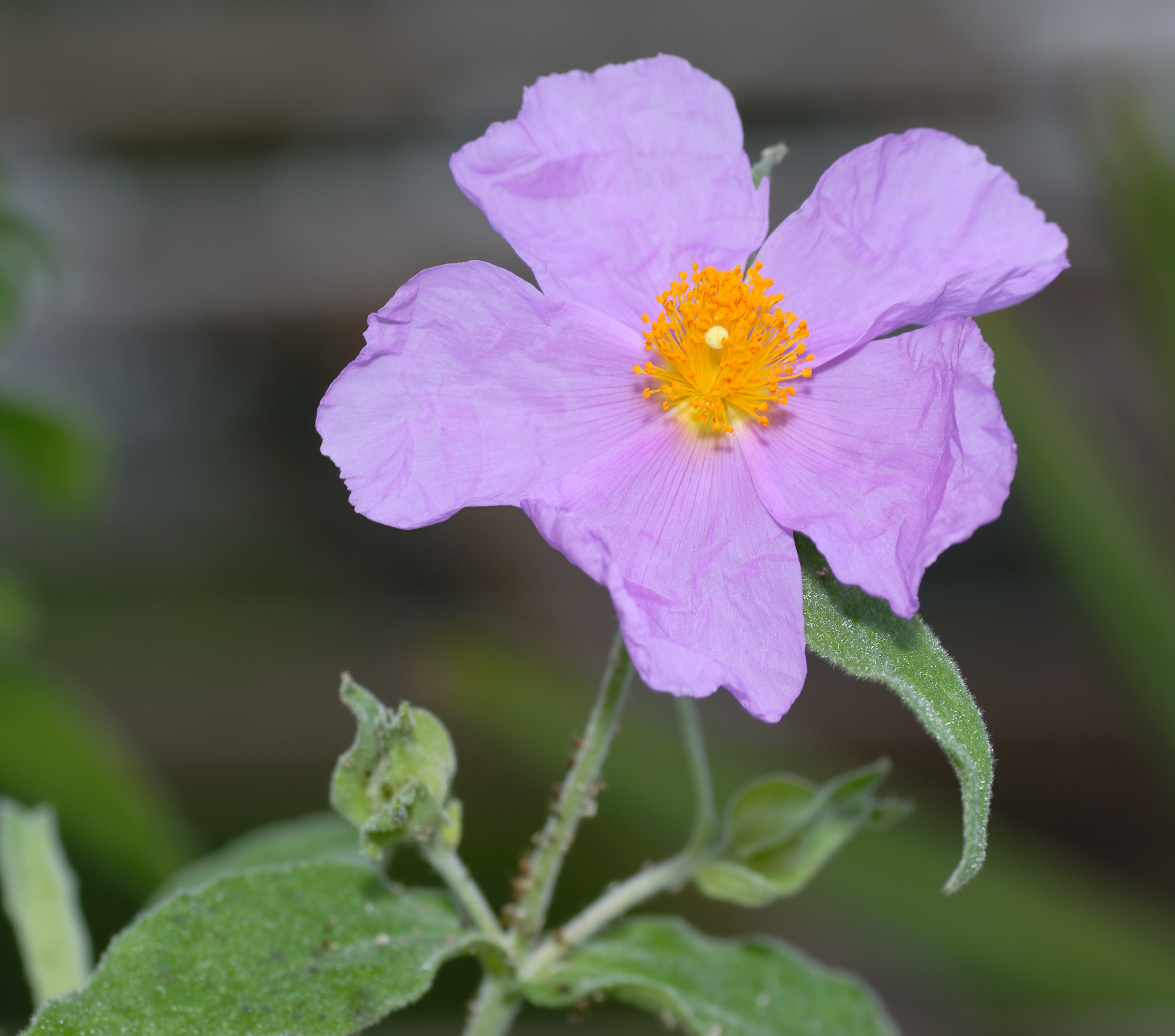 This image shows a flower of a Grey-haired Rockrose (Cistus creticus).